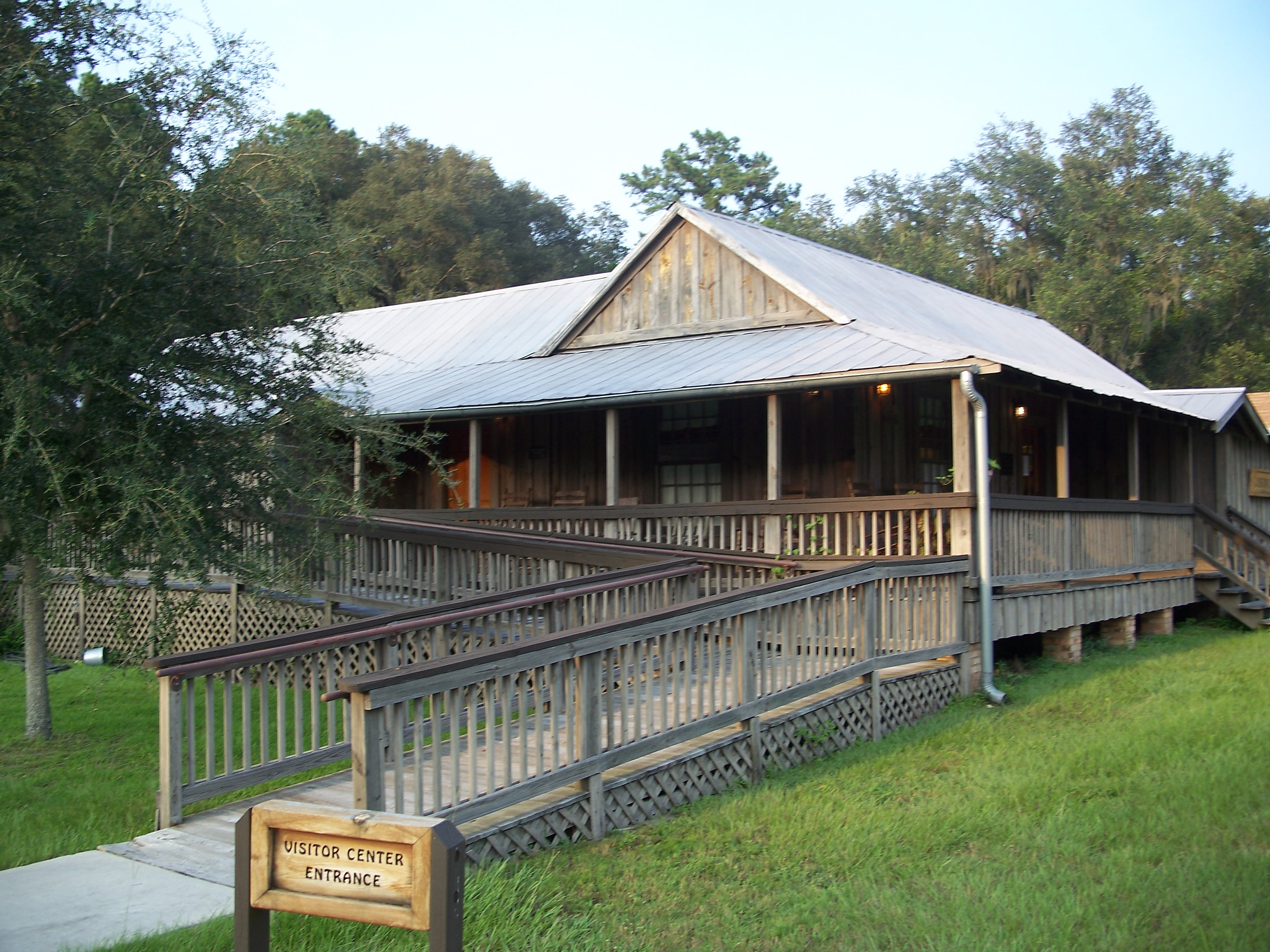 Visitor's center for the Dudley Farm Historic State Park, near Newberry, Florida